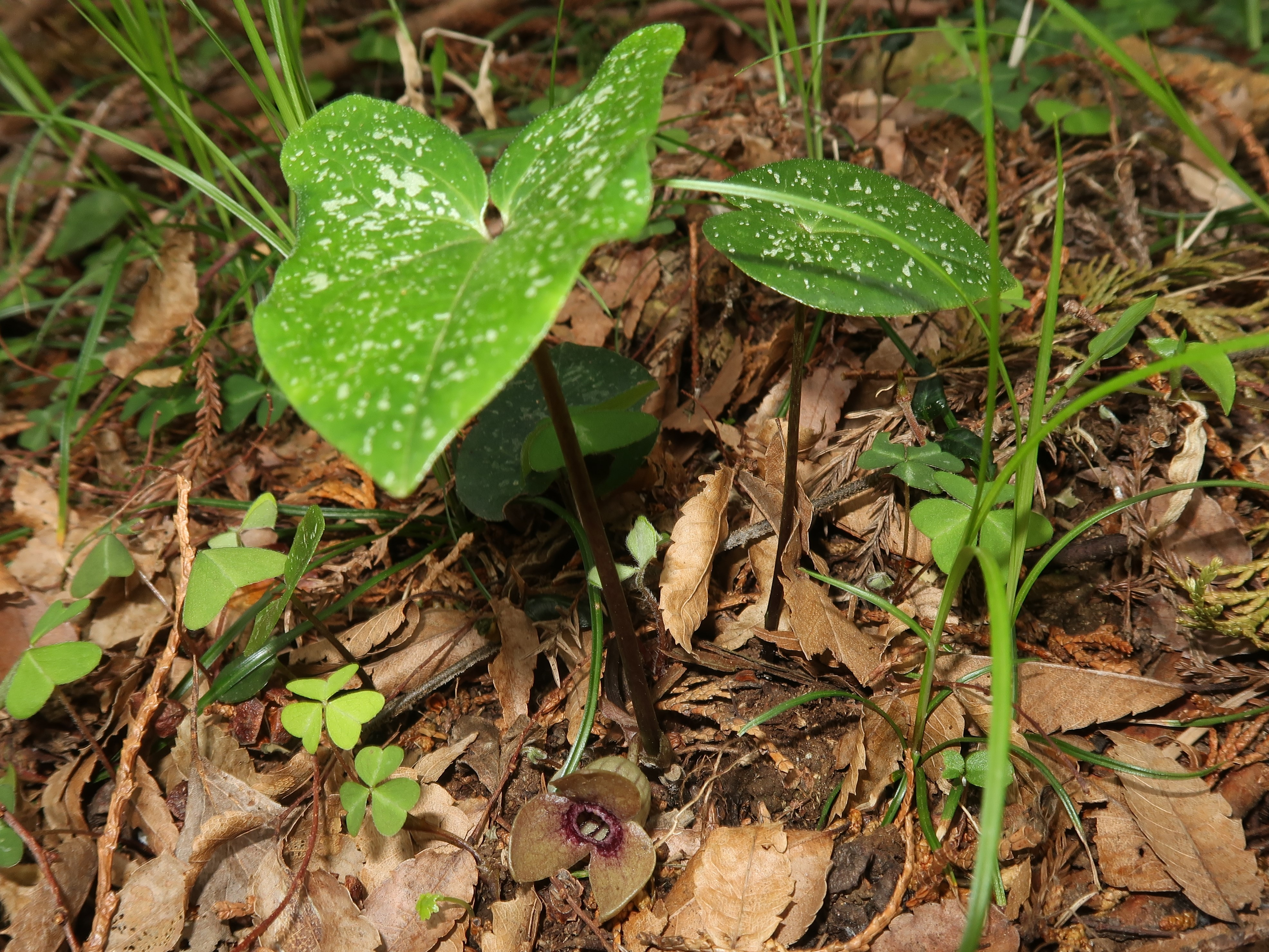 Asarum blumei, Izu city, Shizuoka pref., Japan